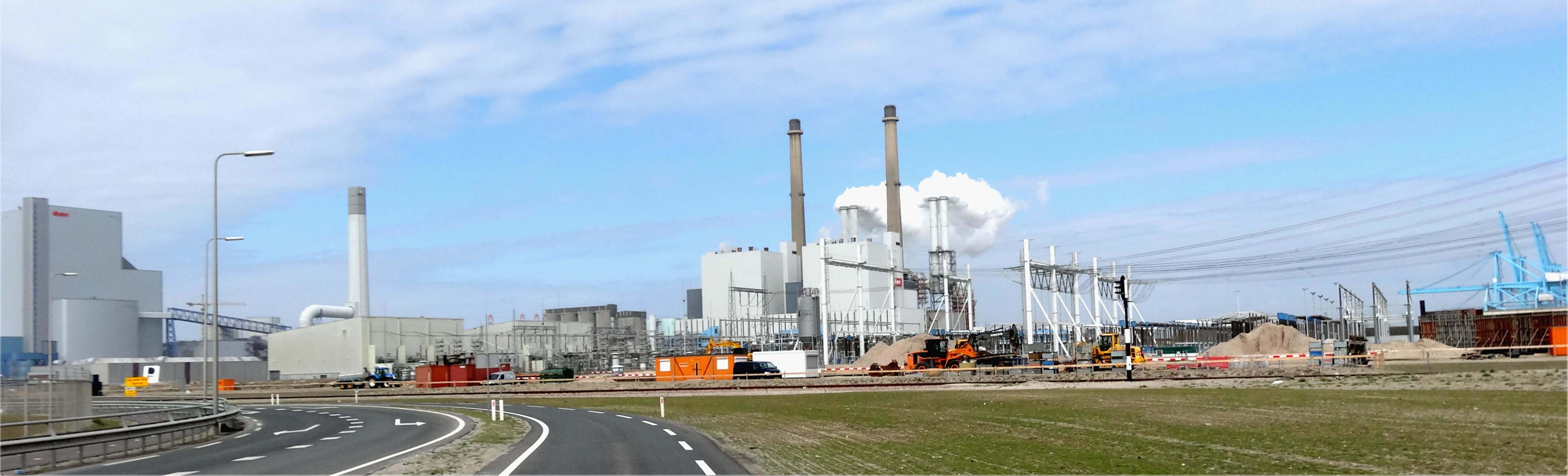 Maasvlakte, Rotterdam, Netherlands; Uniper power station, BritNed converter station (left) and 380 kV substation (right)